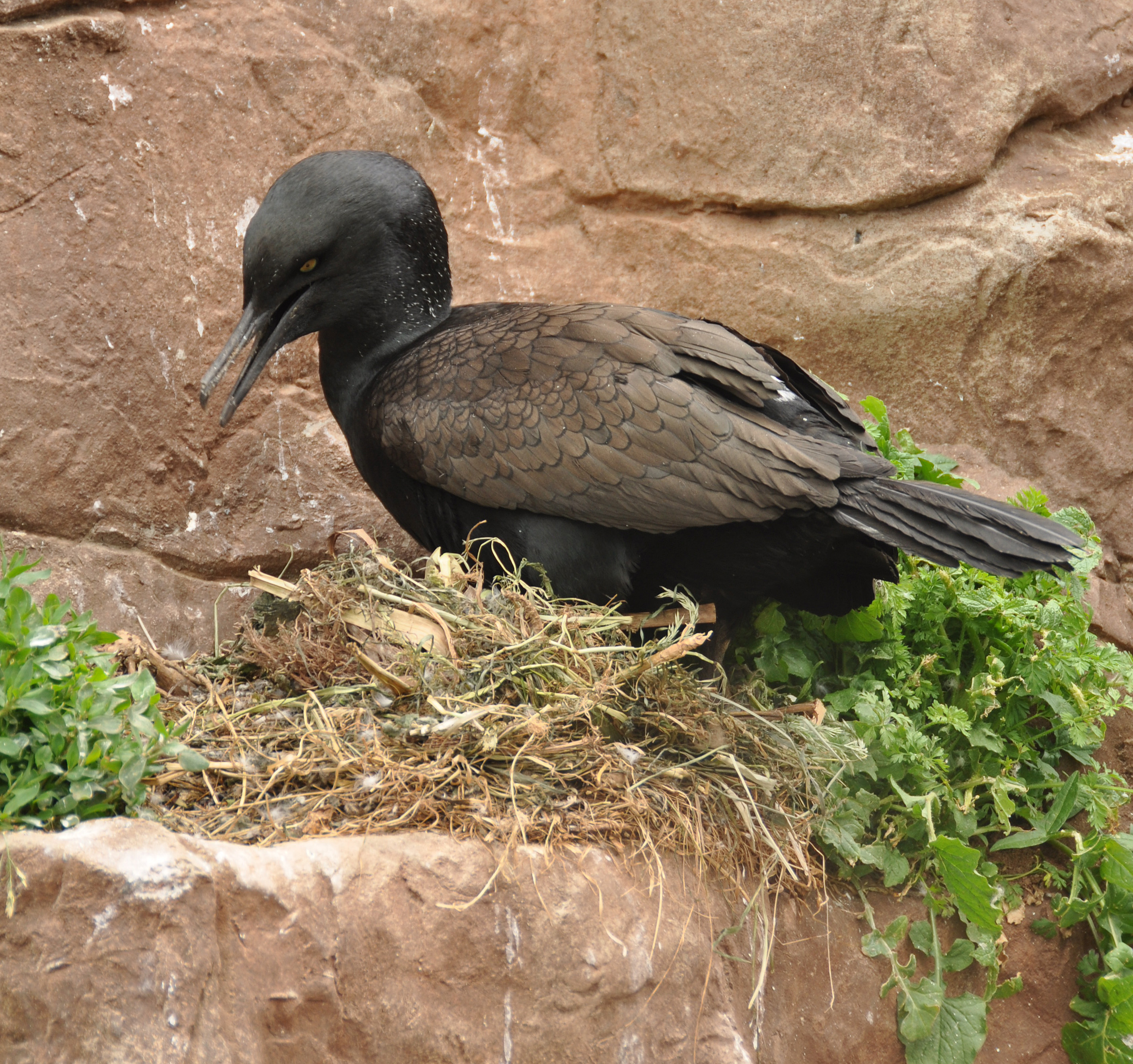 A Bank Cormorant (Phalacrocorax neglectus) at Living Coasts, Torquay, UK